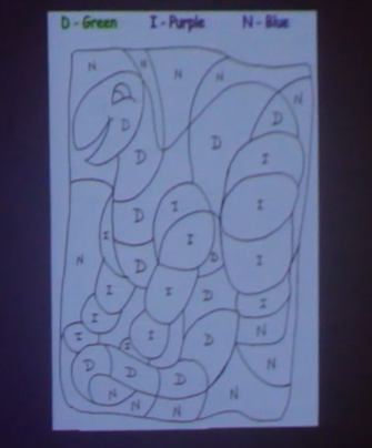 Did you ever think we'd figure out the color of a dinosaur? How do we figure out the color of extinct animals? Breakthroughs in the last eight years have led to a whole new way of looking at dinosaurs. Julia Clarke was then an Associate Professor of Paleontology at the University of Texas at Austin.